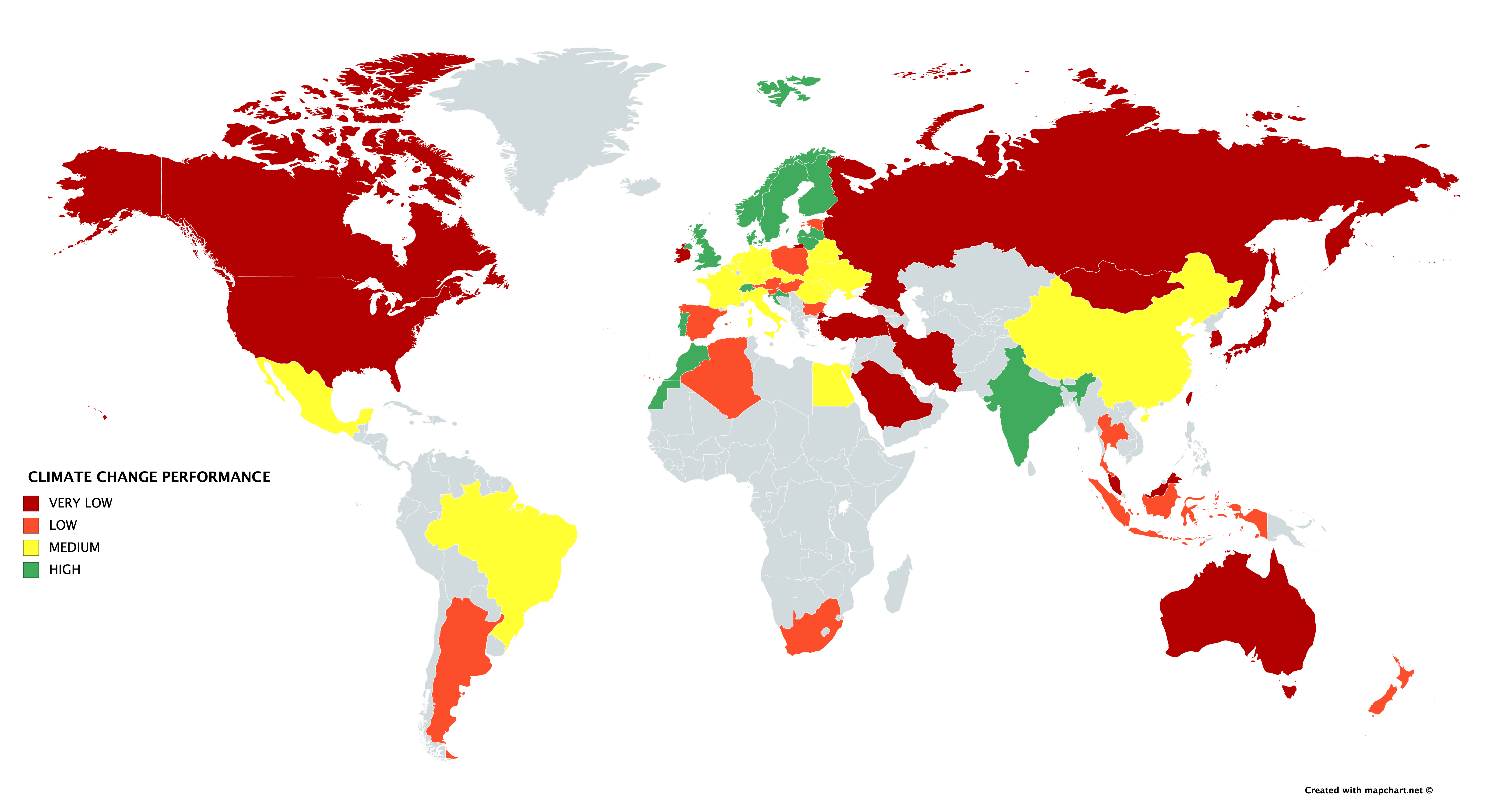 MAP CREATED FROM THE DATA OF CLIMATE CHANGE PERFORMANCE INDEX